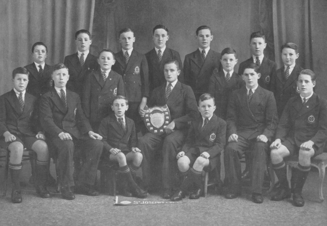 Swimming Team 1940, winners of the Walsh Shield. (Kevin Dynon, seated second from left) Note ! Only seniors were permitted to wear long trousers at that time.